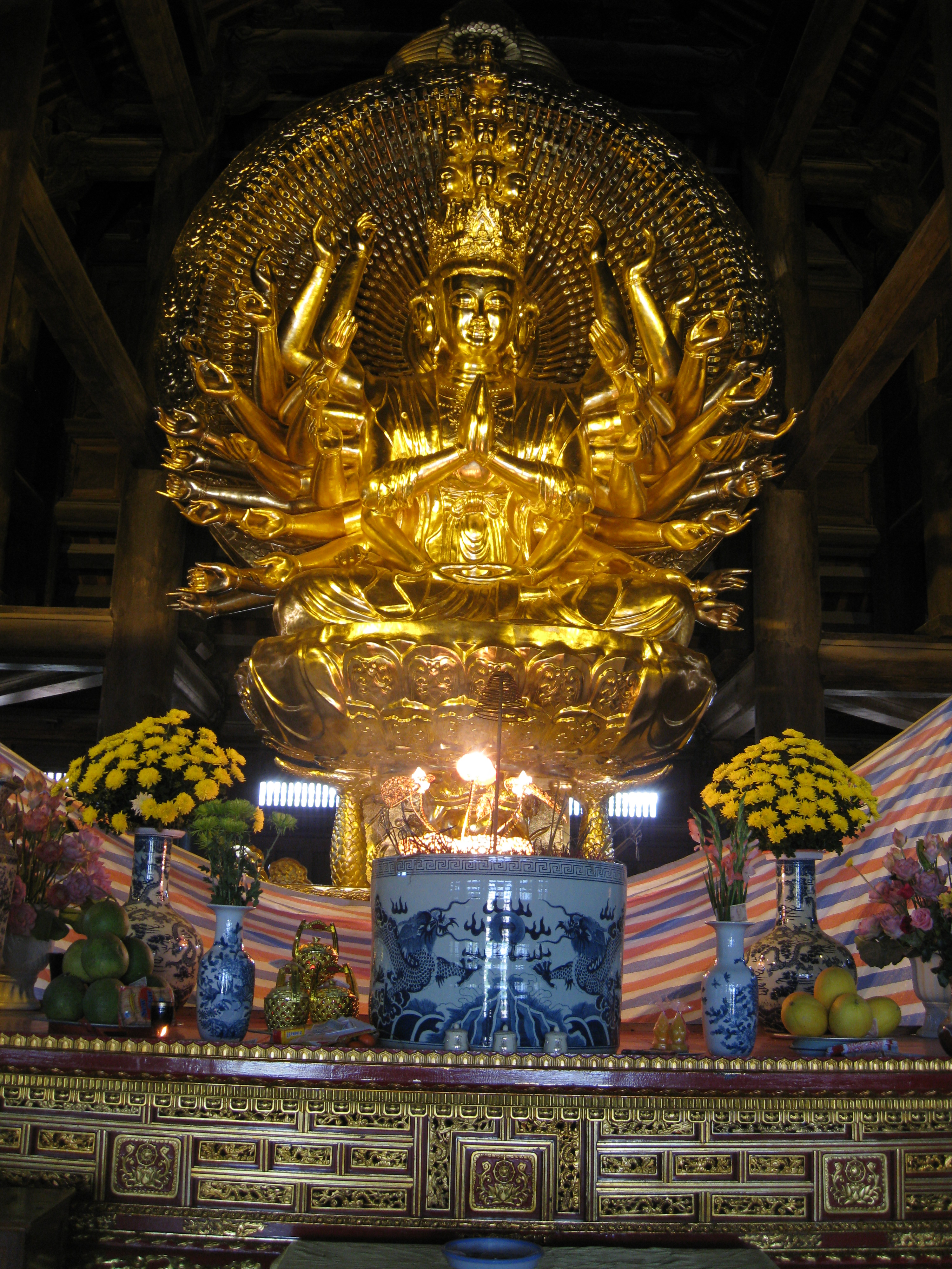 Guan Yin statue inside Bái Đính Pagoda.